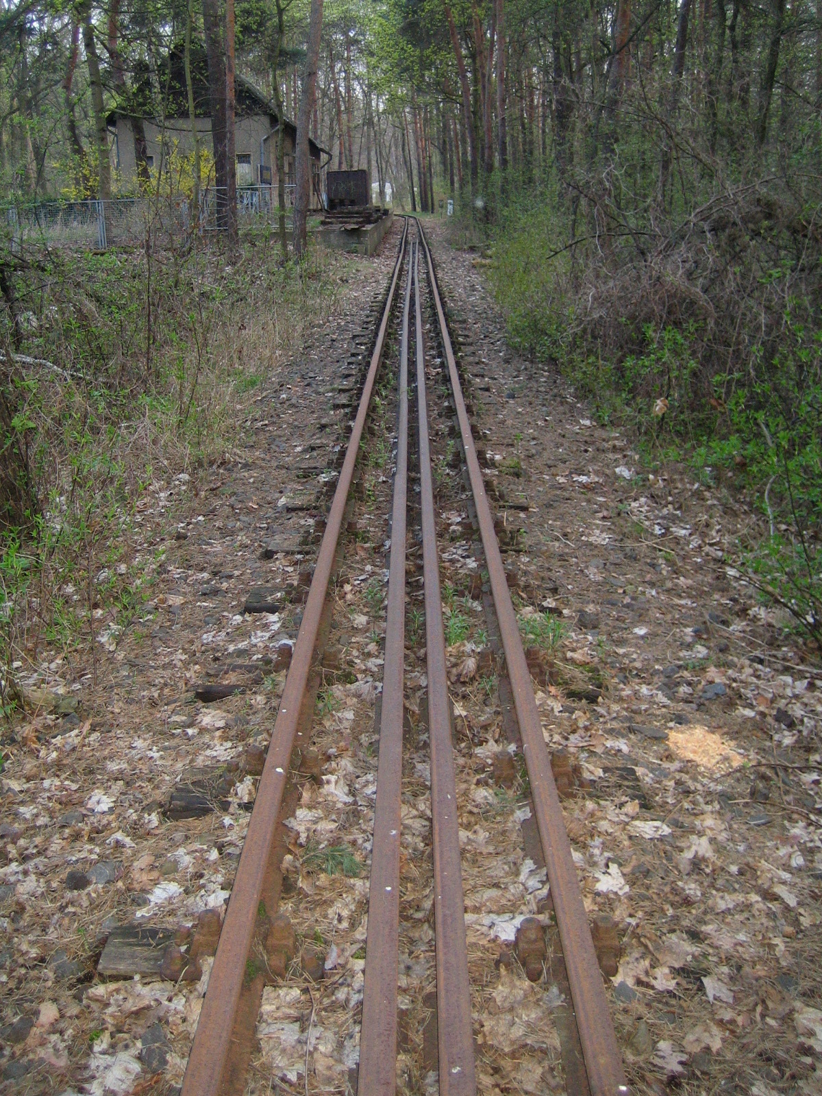 The Berliner Parkeisenbahn (BPE) is a narrow-gauge railway in the park Wuhlheide in Berlin, Germany.